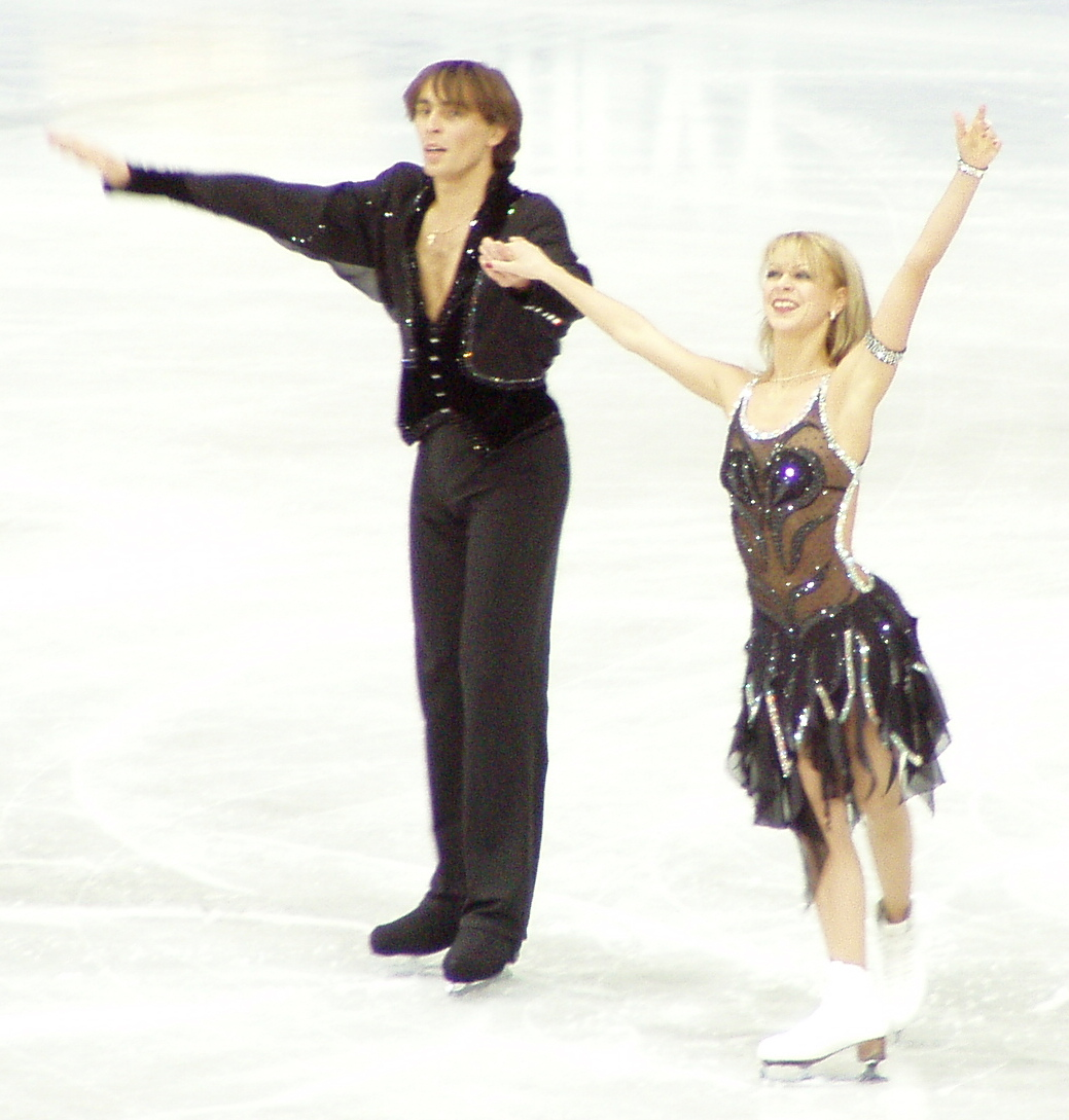 Grushina/Gonsharov at the compulsory dance at the world championships 2004 in Dortmund